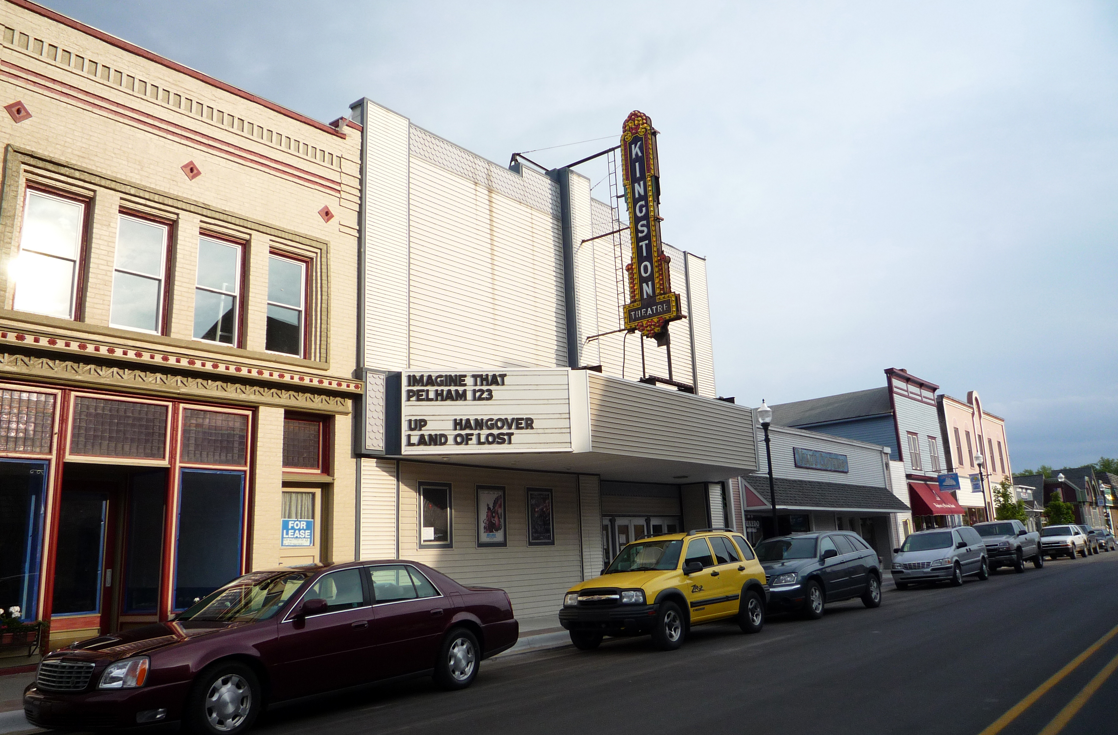 Kingston Theater, in downtown Cheboygan, Michigan.